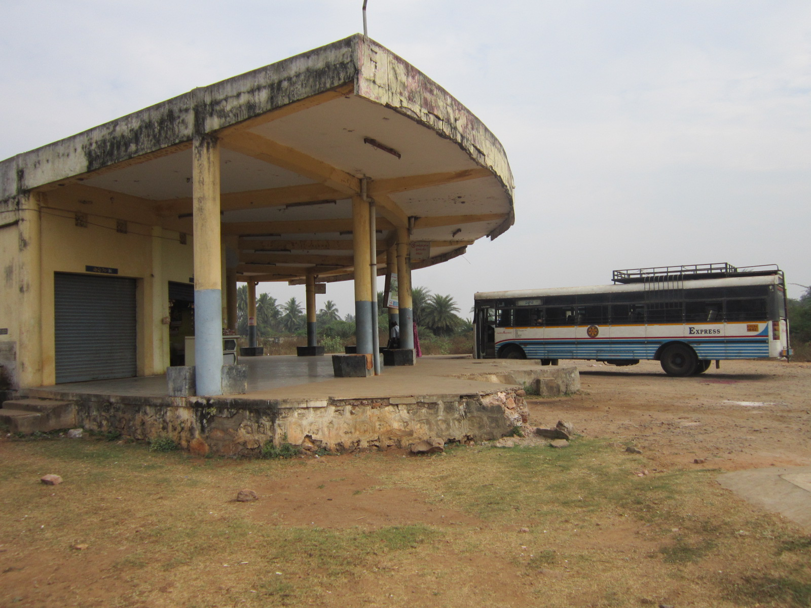 Bus stand in icthapuram,Andhrapradesh,India